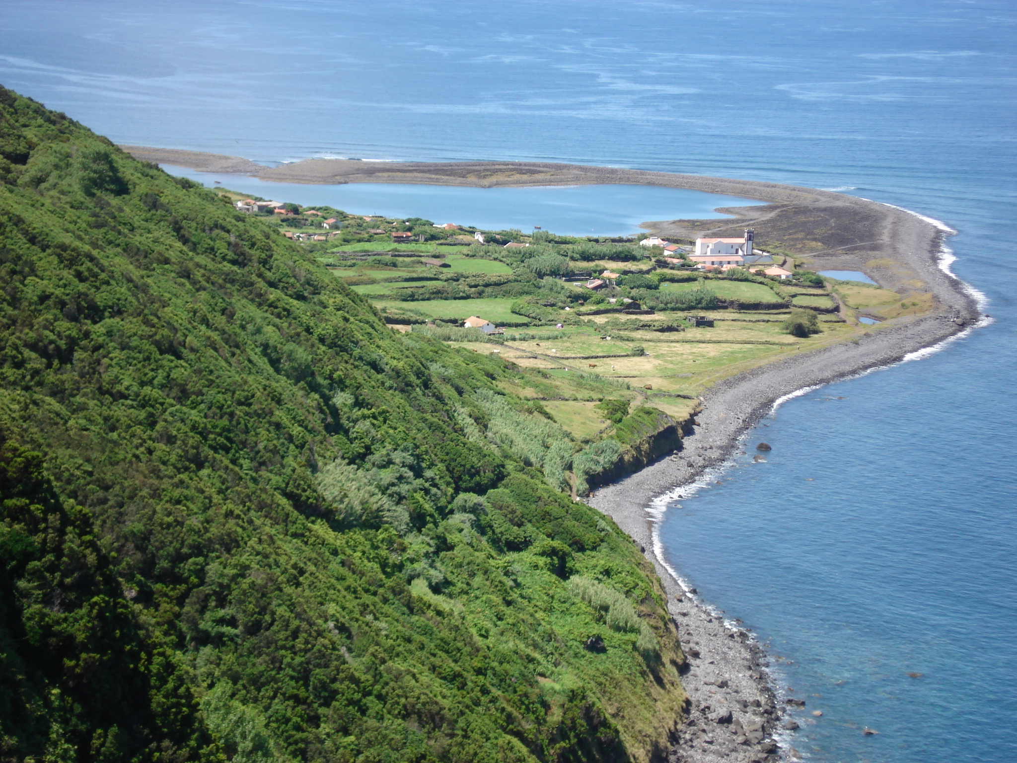 The Fajã do Santo Cristo, at the base of the Caldera do Santo Cristo, parish of Ribeira Seca, Calheta, island of São Jorge, Azores